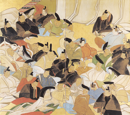 The Thirty-Six Immortal Poets by Ogata Kōrin (Menard Art Museum)